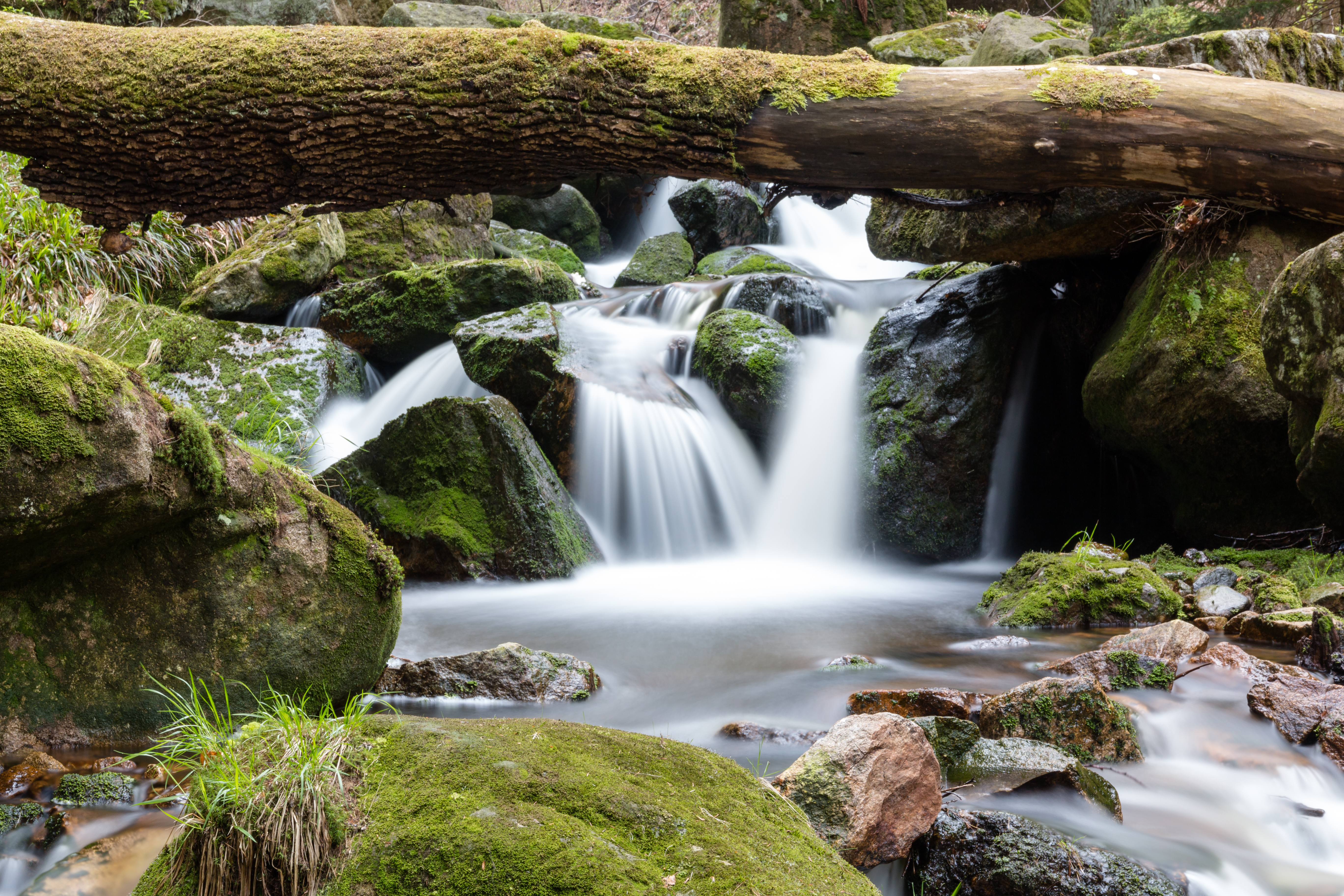 Ilse Falls in the Ilsetal in Harz National Park near Ilsenburg, Saxony-Anhalt, Germany